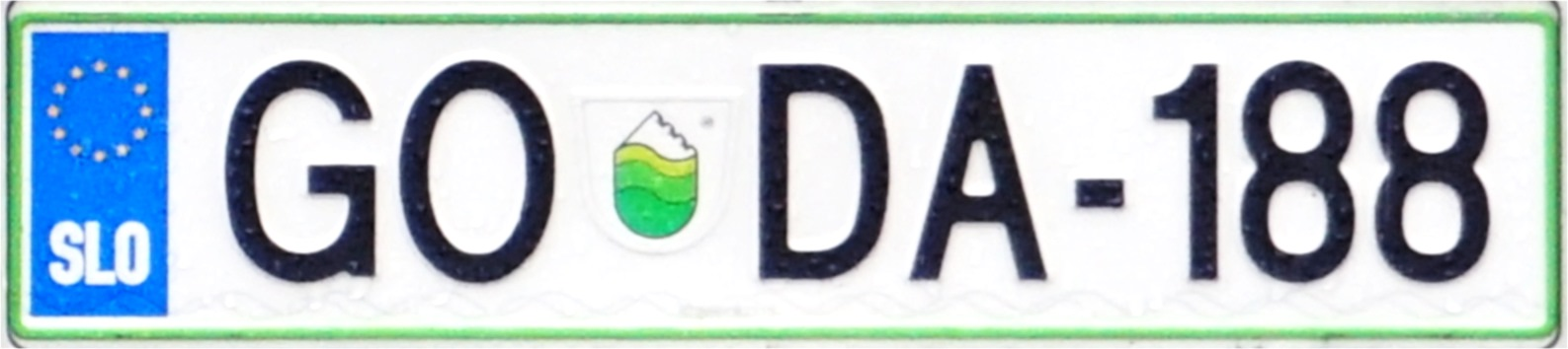 Slovenian license plate with the sticker of Ajdovščina administrative unit